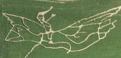 VIGY LABYRINTHE VEGETAL GEANT